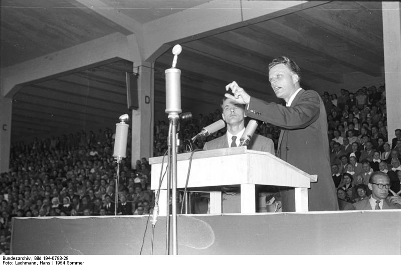 Billy Graham in Duisburg, Sommer 1954